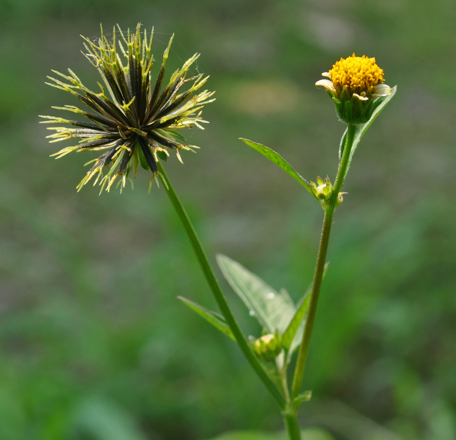 Bidens pilosa var. minor, young fruits and flower head. Bogor, West Java.